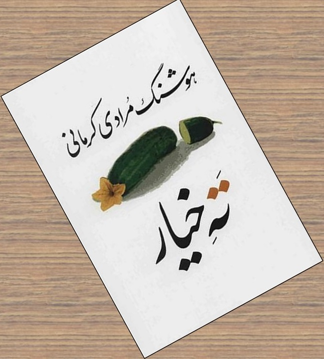 Book Cover